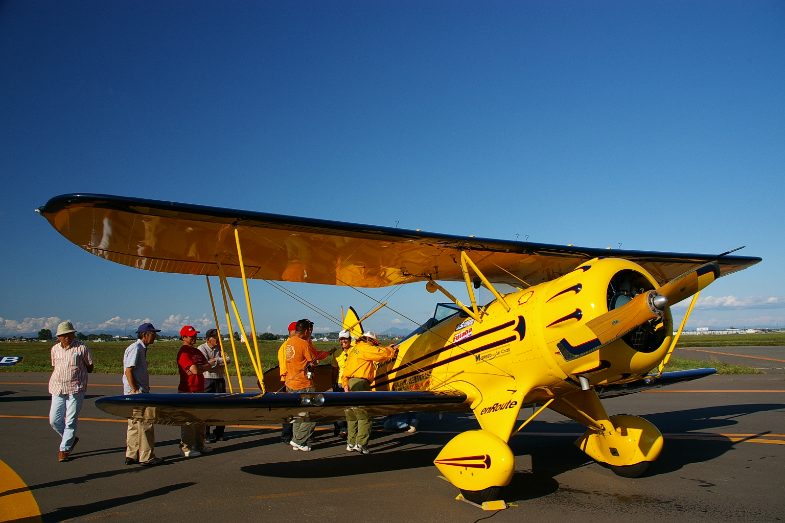 WACO YMF F5C